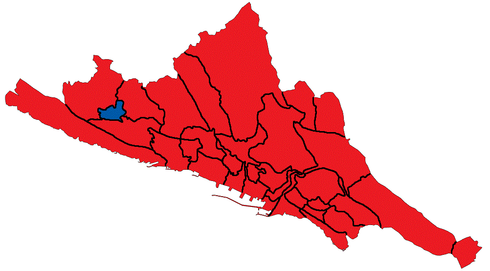 Elections for mayor of Rijeka, first round results by local committees in Rijeka